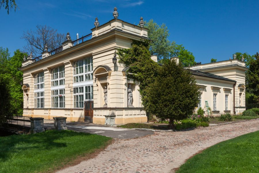 Skierniewice, former kitchen near primate's palace.